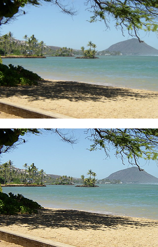 Original Beach (top) Clearer Beach (bottom)